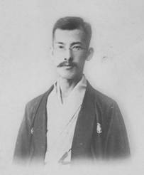 Photo of Kawakami Bizan (1869-1908)